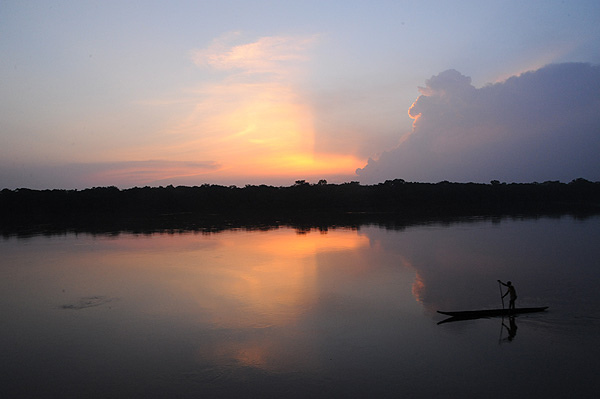 Sunset on the Sangha River — in the Sangha Department, within the western Republic of the Congo. A tributary of the Congo River.